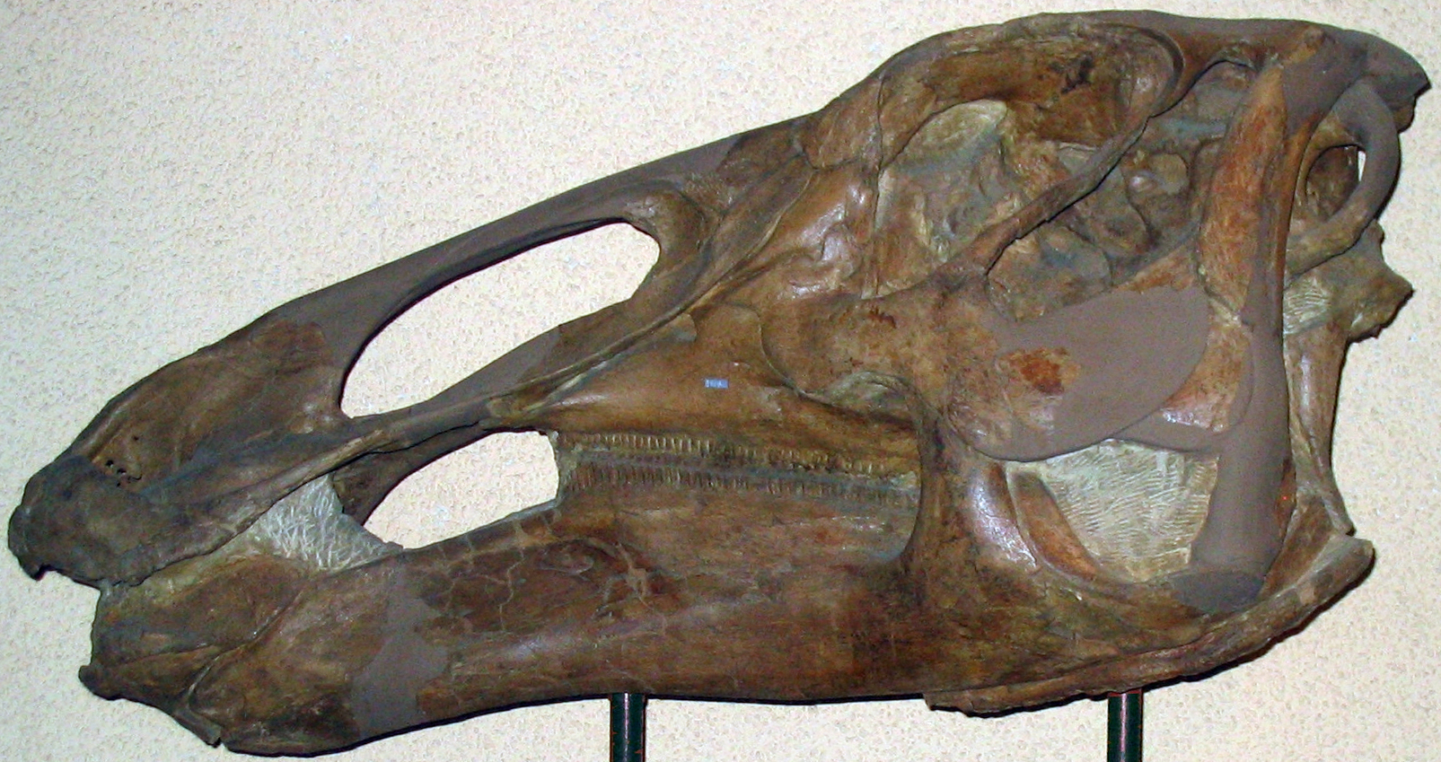 USNM 3814, a skull of the hadrosaurine hadrosaur Edmontosaurus annectens at the Smithsonian museum of Natural History.